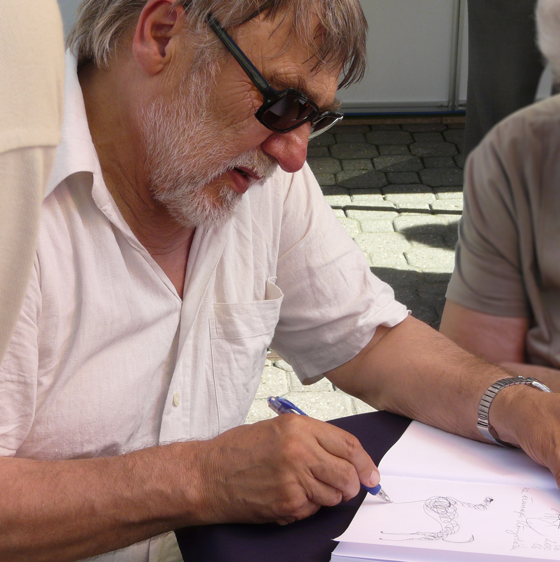 Pál Kő Hungarian sculptor at a book signing. Juin 2010.